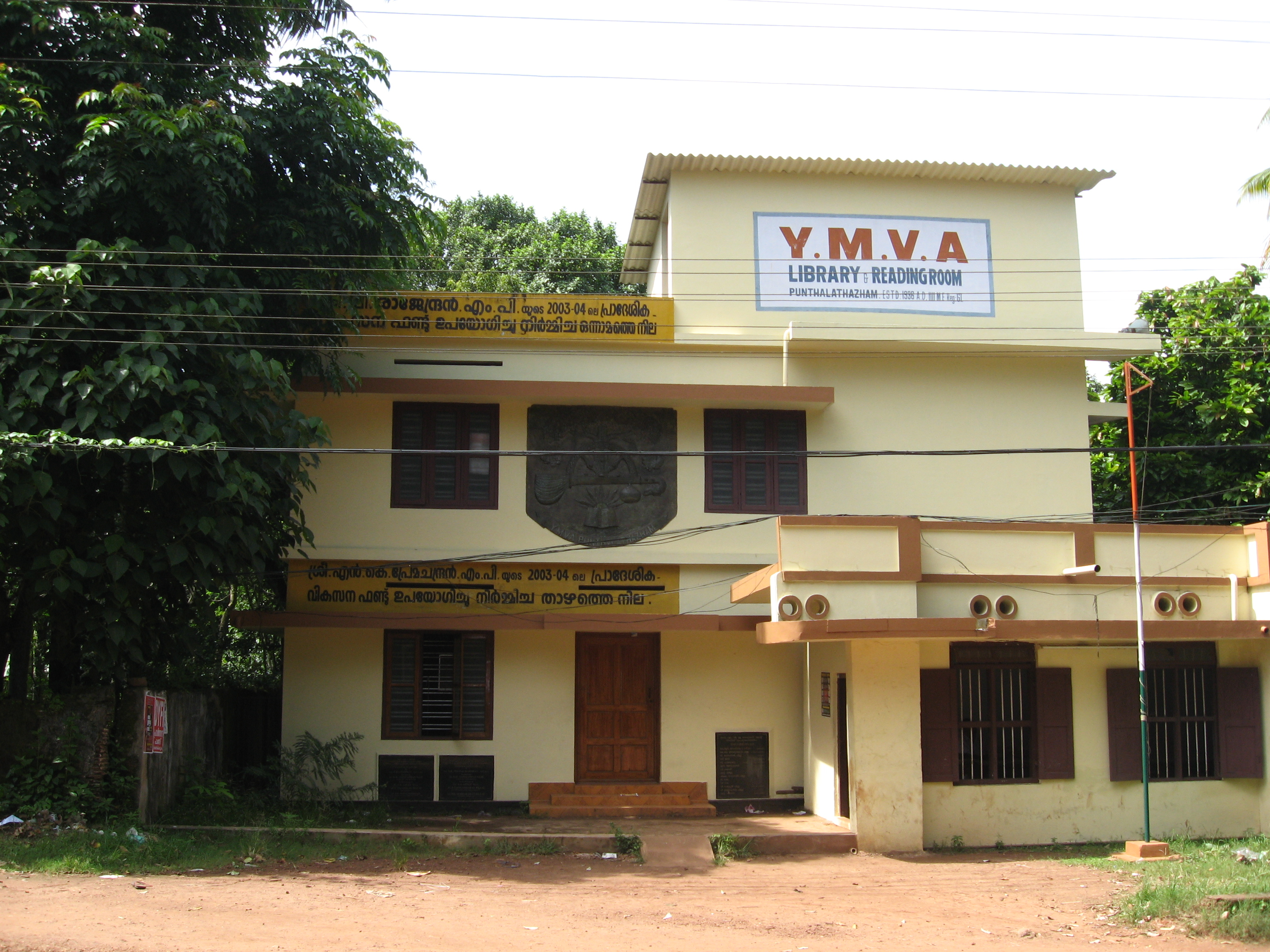 Punthalathazham Y.M.V.A Library